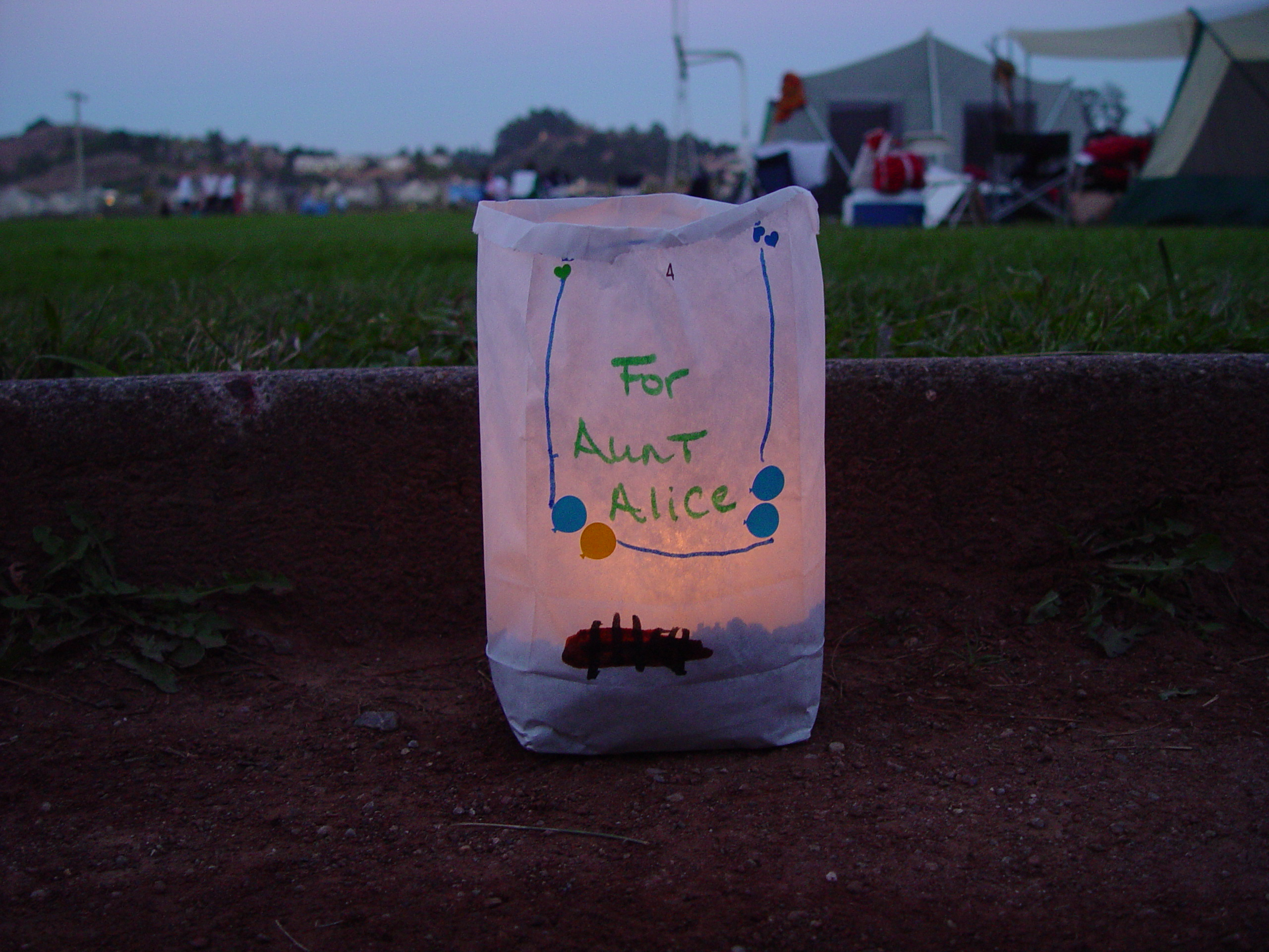 A luminaria placed at a Relay for Life in Mill Valley, California's Tamalpais High School.